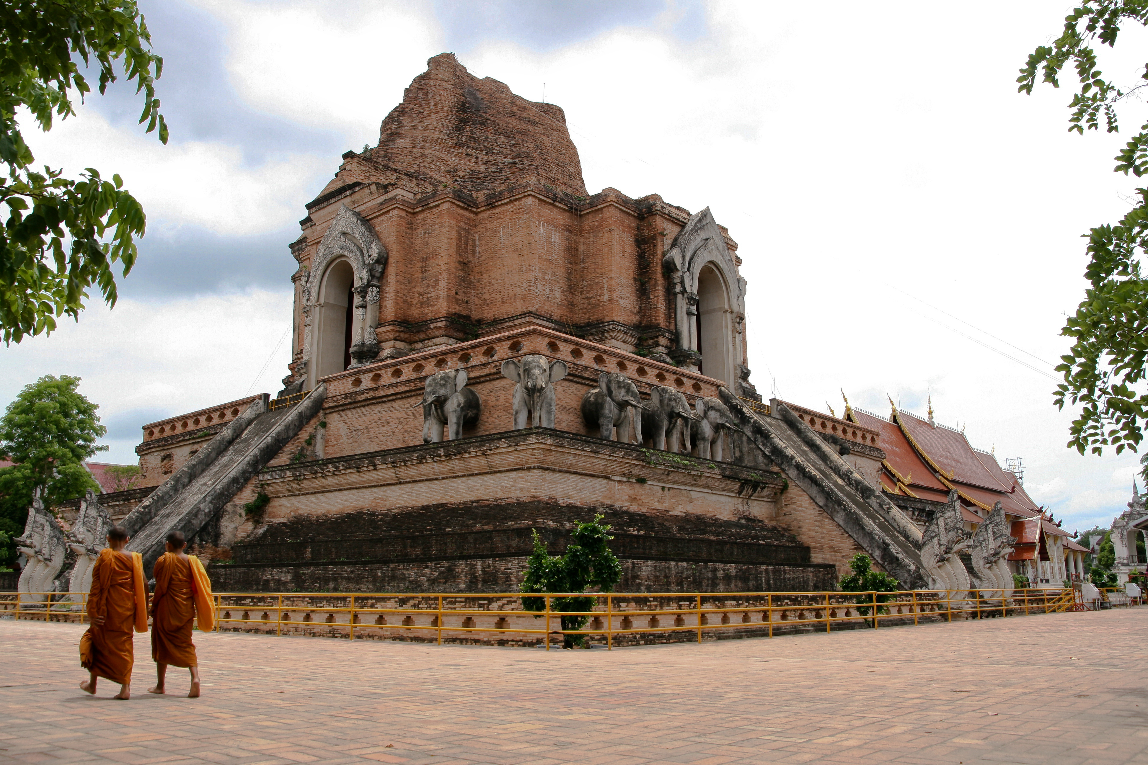 The temple in the center of Chiang Mai, in the north of Thailand: The 'Wat Chedi Luang' (2008). Total Attribution Creative Commons so do what you want with this (but please let me know.. ;)